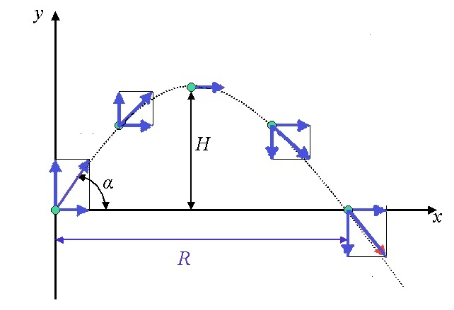 In this image H in the maximum height retained by the projectile. And R is the range of this projectile